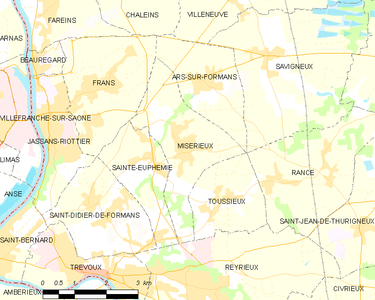 Map of French commune: Misérieux Map commune FR insee code 01250.png